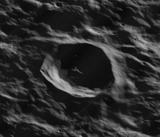 Oblique view of Grachev, on the far side of the moon, facing west.